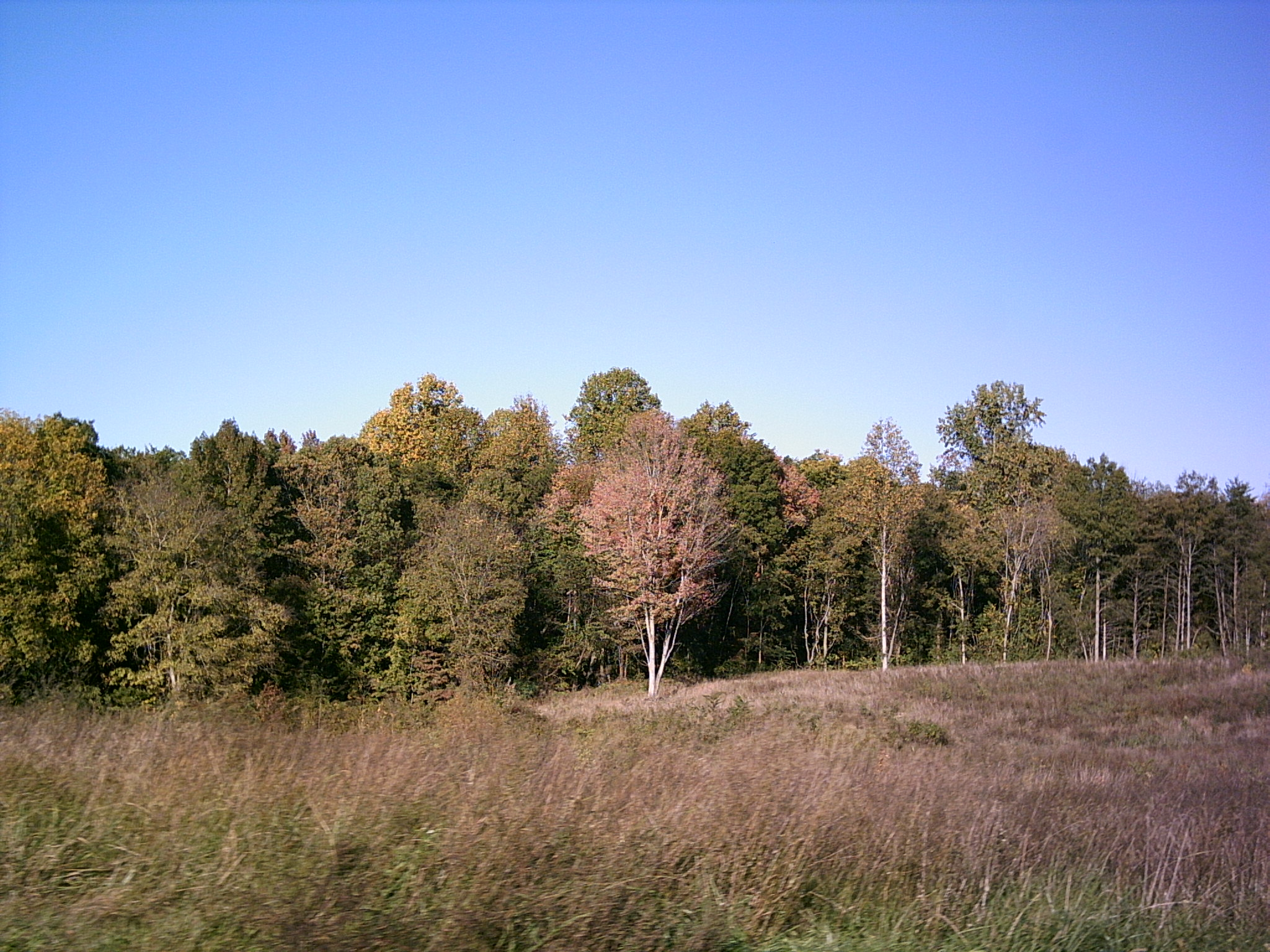 Image taken by me for Wikipedia.